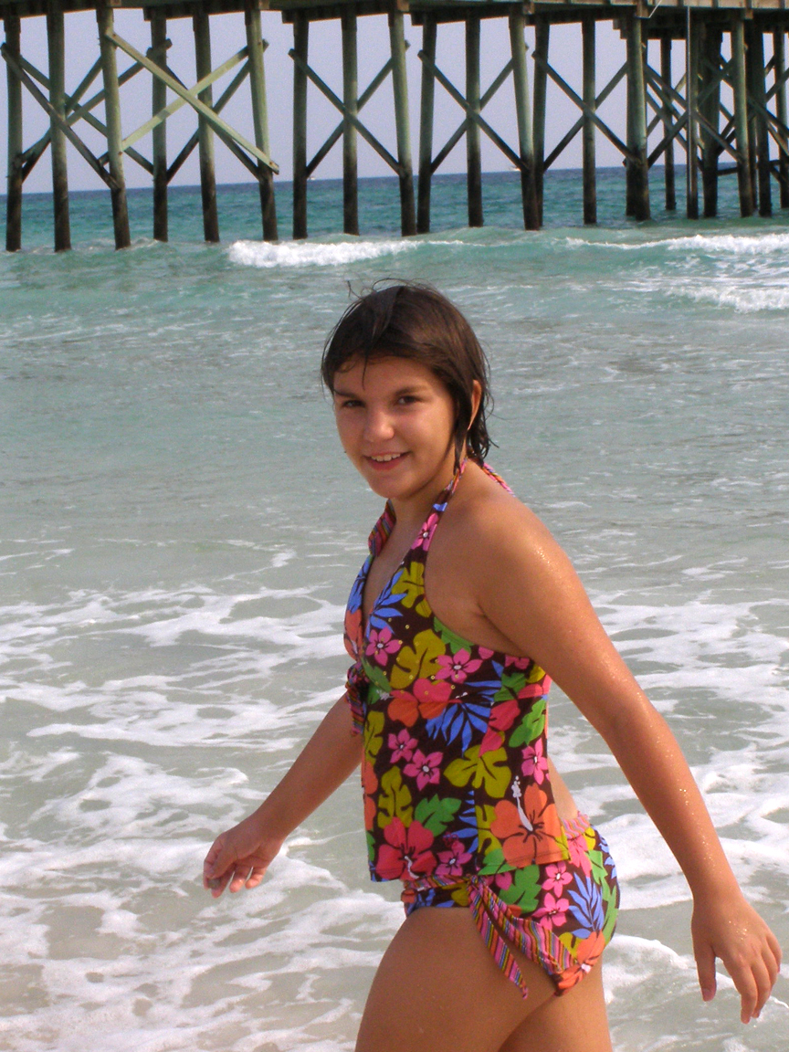 Woman wearing a floral tankini.